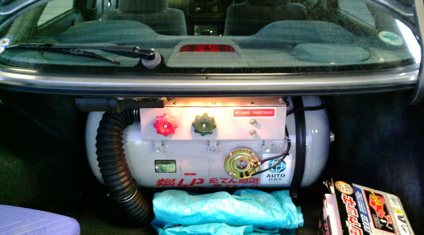 A LPG tank equipped on HONDA ACCORD CF4(converted to bifuel). The tank complied with Japanese regulations.